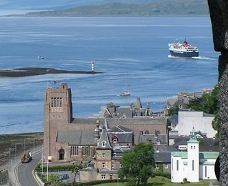 Oban Cathedral from McCaig's Tower. The Mull ferry leaves Oban for Mull with Lismore beyond it and the mainland further still